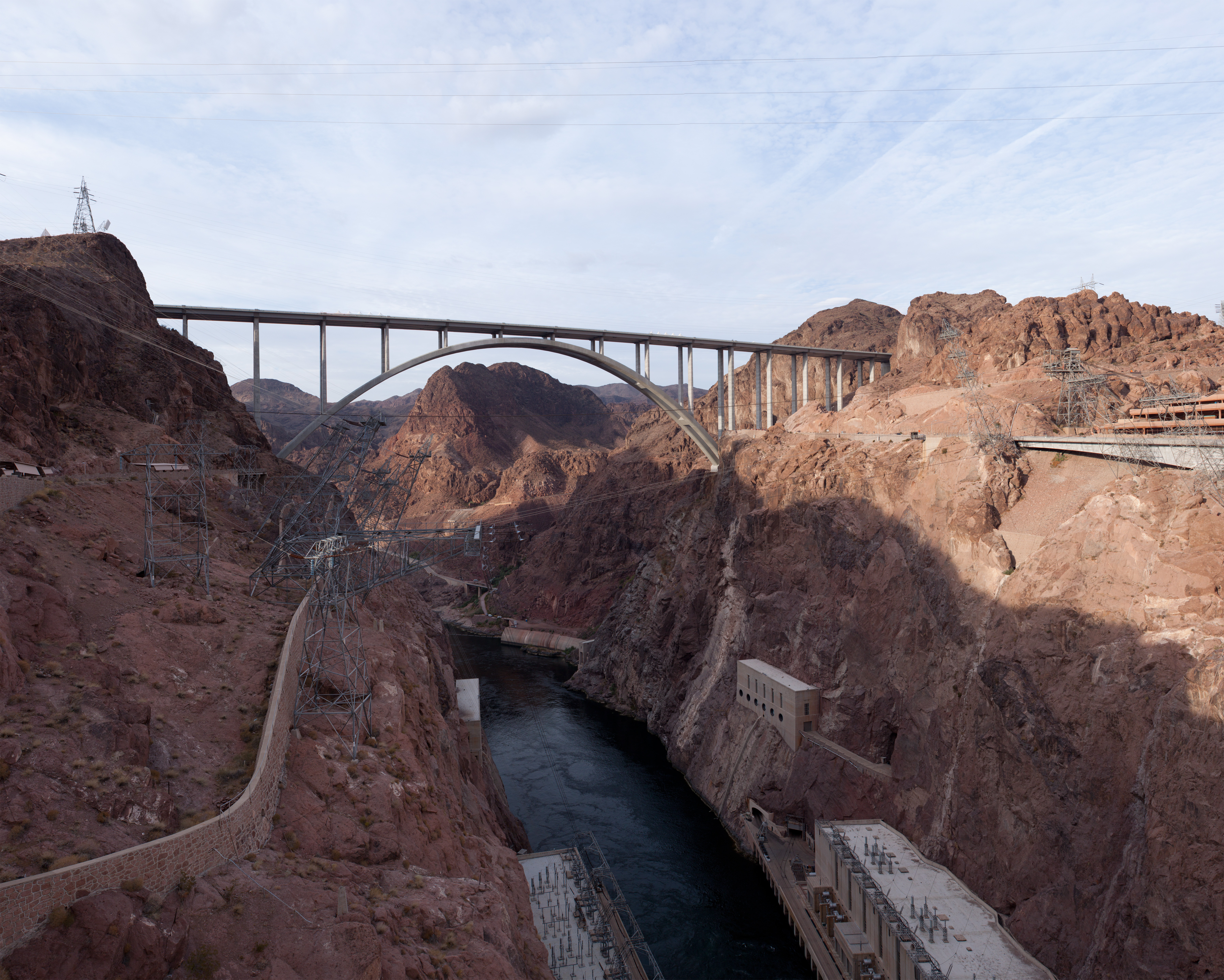 The Mike O'Callaghan – Pat Tillman Memorial Bridge near the Hoover dam